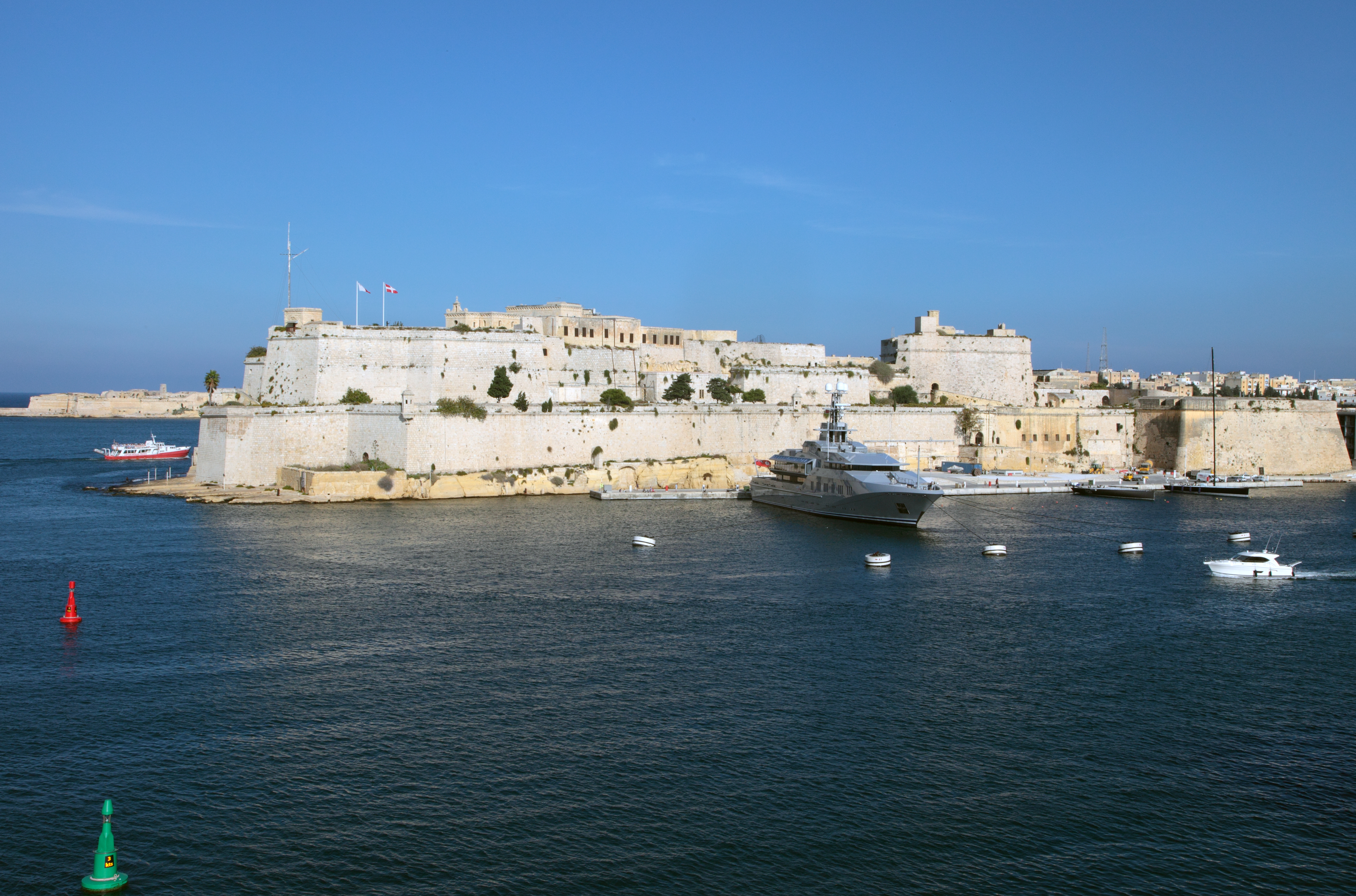 Malta, Birgu (= Vittoriosa), view from Senglea (= Isla)